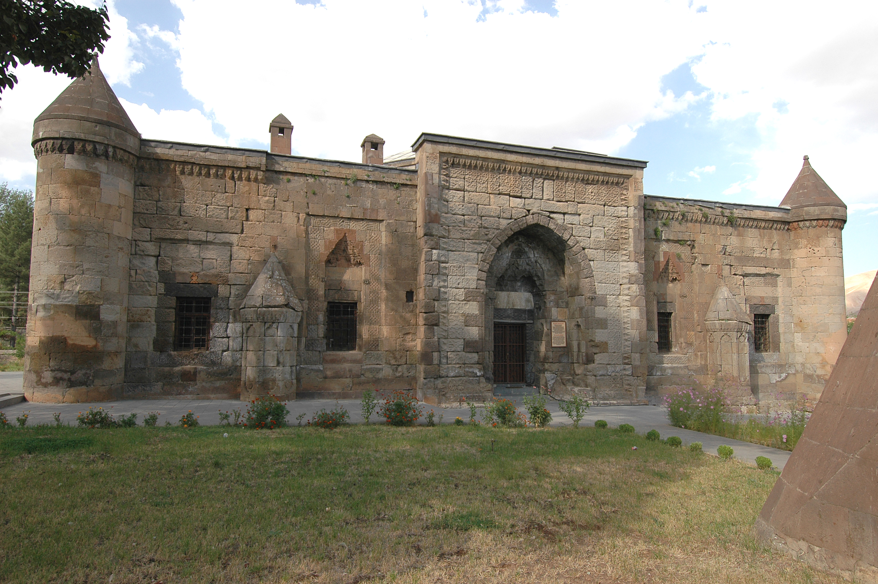 The Ihasiye Şerafhan Medresesi, dating to 1429 according to my notes. It seemed to have been restored around 1589. As a matter of fact it's a whole complex of several graves and a central building, which is the medrese or Koran School (now housing offices of some kind). This is the medrese building itself.